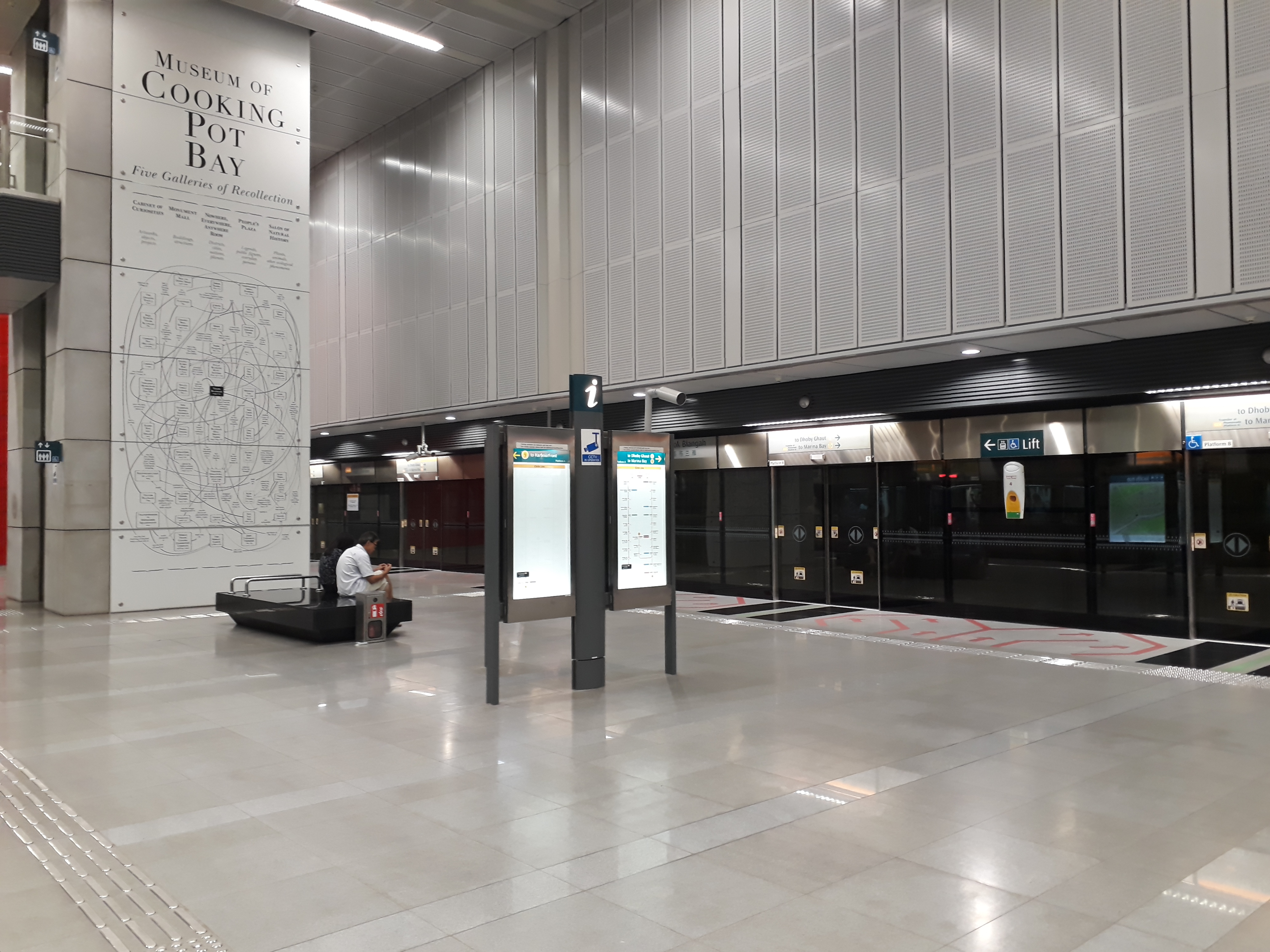 Telok Blangah station